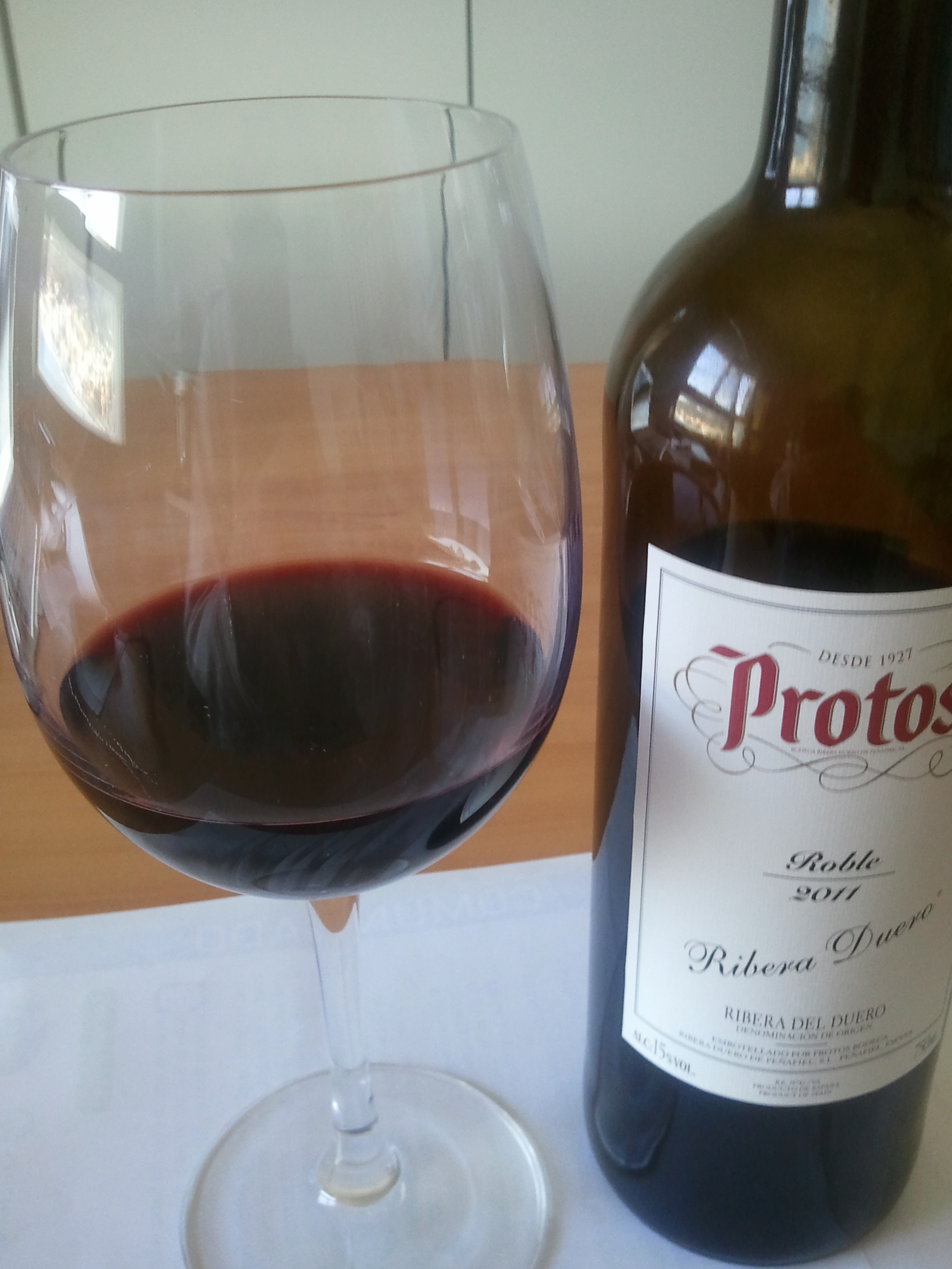 Protos roble 2011, a 100% tinta del país (tempranillo) red wine, Peñafiel, Valladolid, Spain.